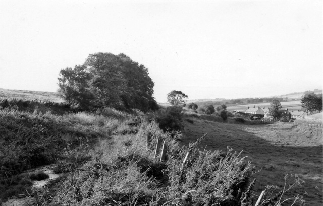 Site of Baldragon Station. View NW along formation of former Dundee West - Newtyle - Alyth Junction line (closed 10/1/55 to passengers, 24/2/64 for goods): Station completely disappeared